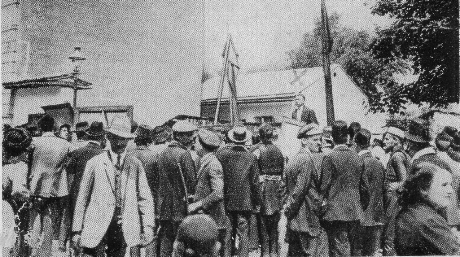 Photo of Josip Vancaš (marked in the photo with X) talking at an anti-Serb gathering in Sarajevo, before the escalation to violence.